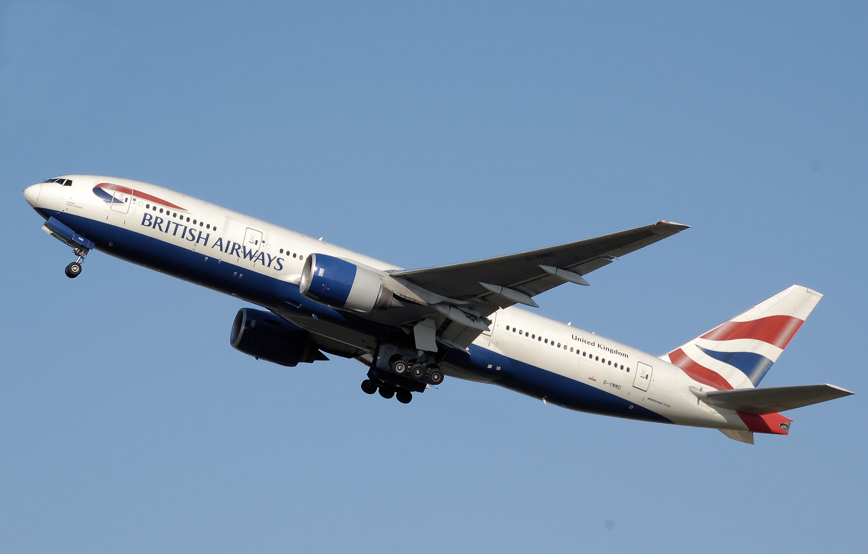 British Airways Boeing 777-200 (G-YMMD) takes off from London Heathrow Airport, England. The undercarriages have just begun retraction.